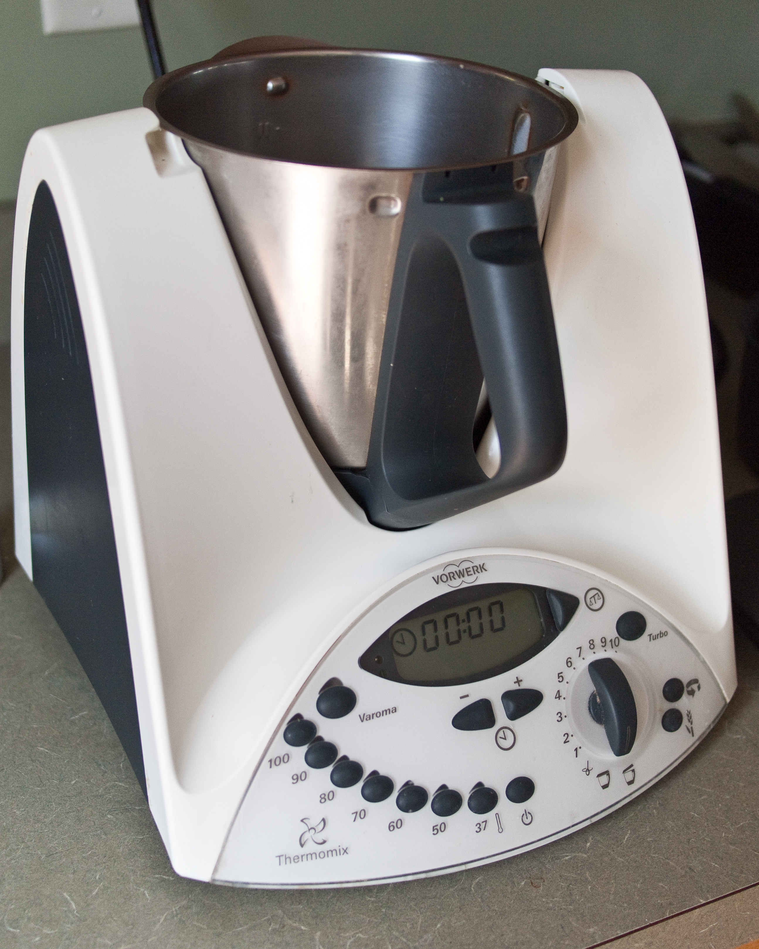 eGullet Gathering 2010 Feast in Ann Arbor